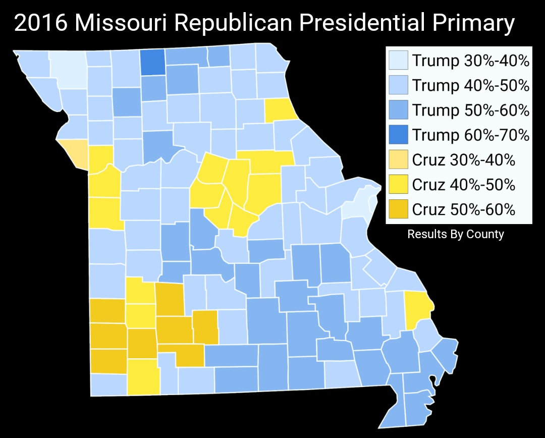 Map showing the results of the 2016 Republican Presidential Primary in Missouri by County.